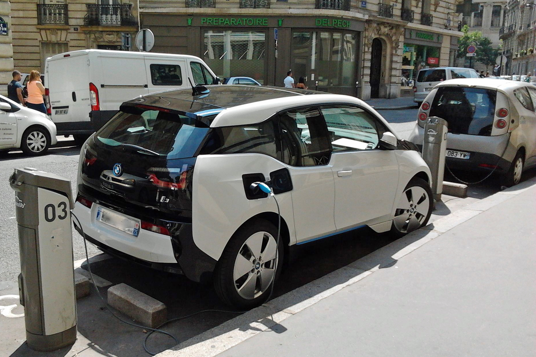 BMW i3 charging in an Autolib' carsharing station in Paris. In front a Bolloré Bluecar from the Autolib' system